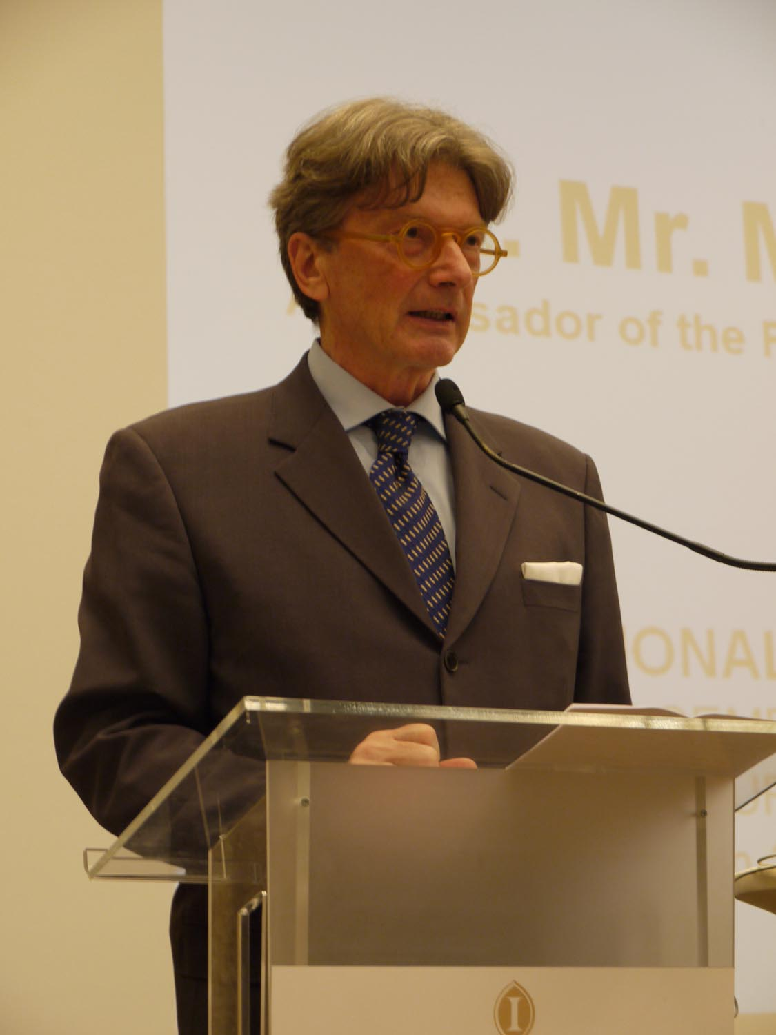 Michael H Gerdts - Ambassador of the Federal Republic of Germany in Warsaw